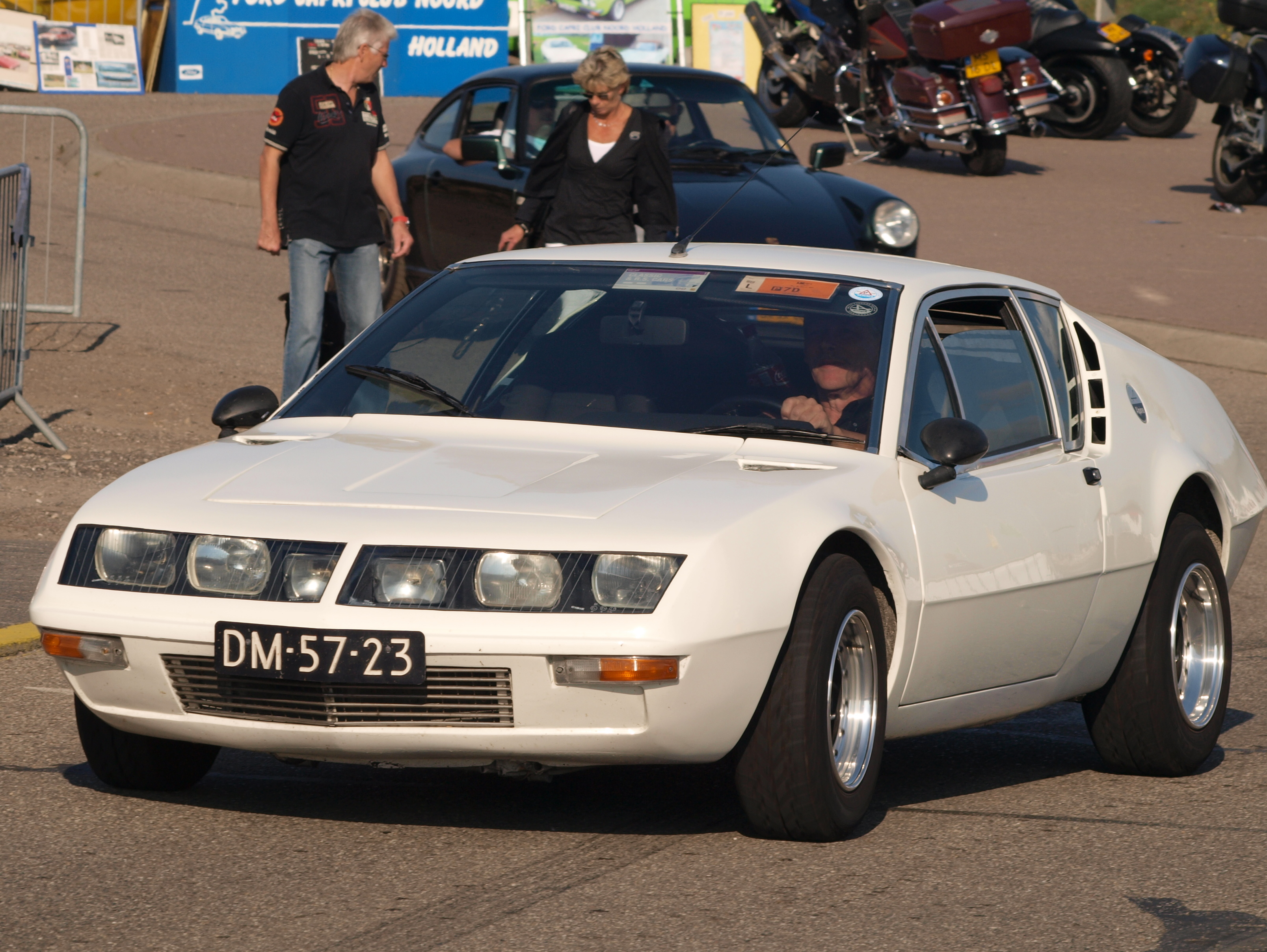 Photographed at the Nationaal Oldtimer Festival Zandvoort 2009, The Netherlands. OLYMPUS DIGITAL CAMERA